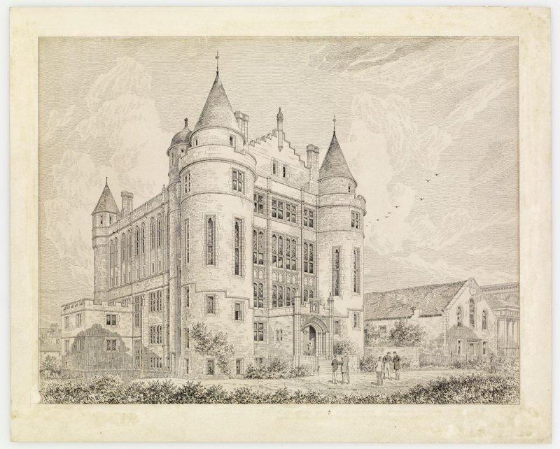 Drawing by Sydney Mitchell from the Royal Incorporation of Architects in Scotland collection showing general view of Teviot Row House, University of Edinburgh Student Union.